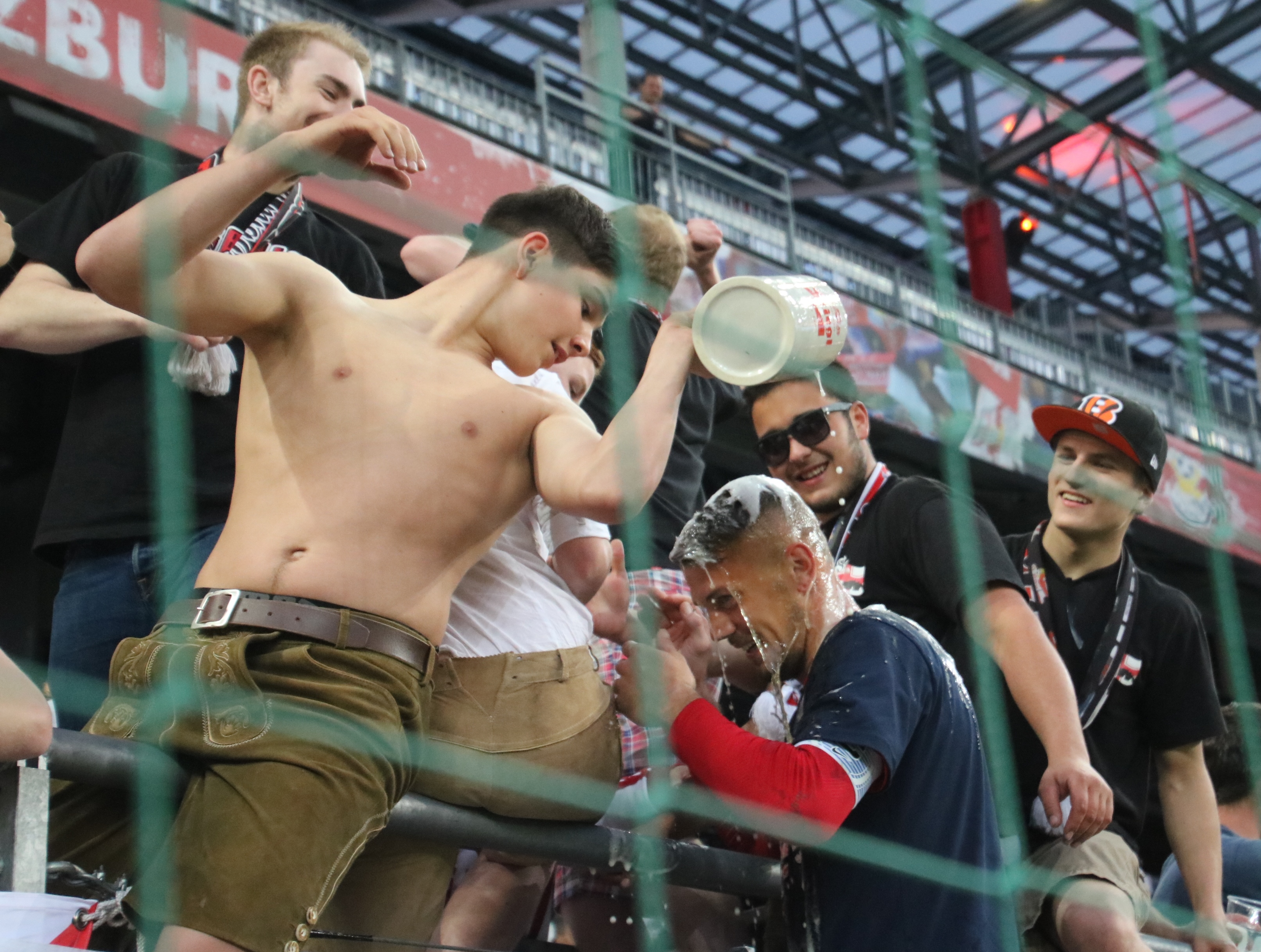 league match Austrian Bundesliga 34th round